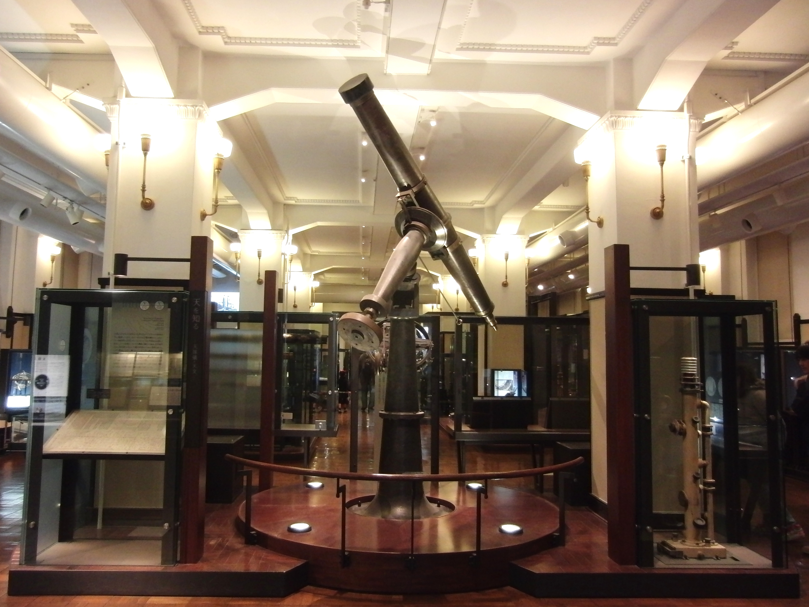 Troughton & Simms Astronomical Telescope. One of the Important Cultural Properties of Japan. Exhibit in the National Museum of Nature and Science, Tokyo, Japan.